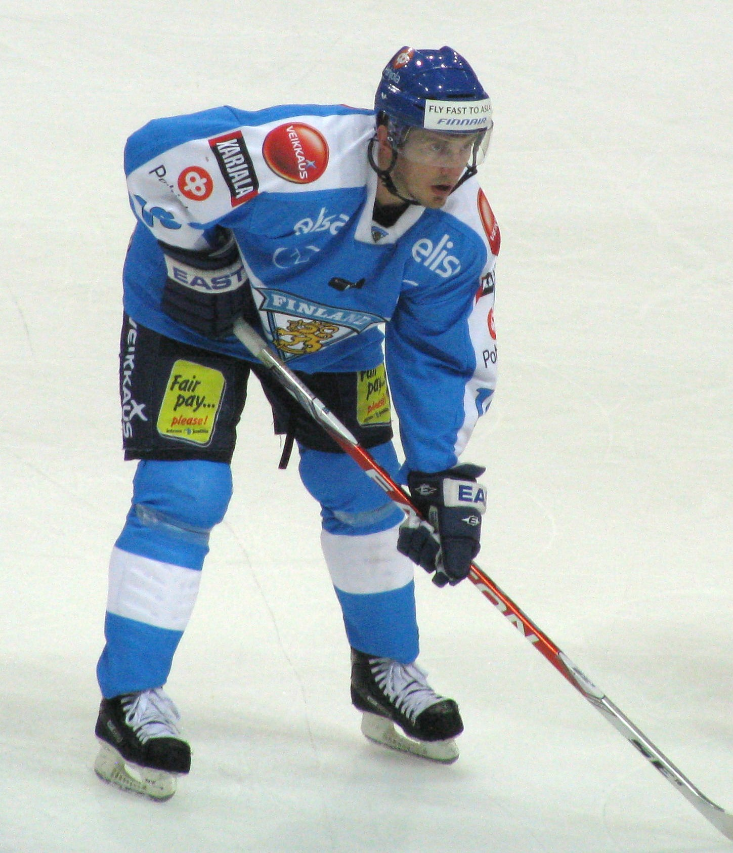 Ville Peltonen (Finland) in match against Sweden (7-0 for Finland)